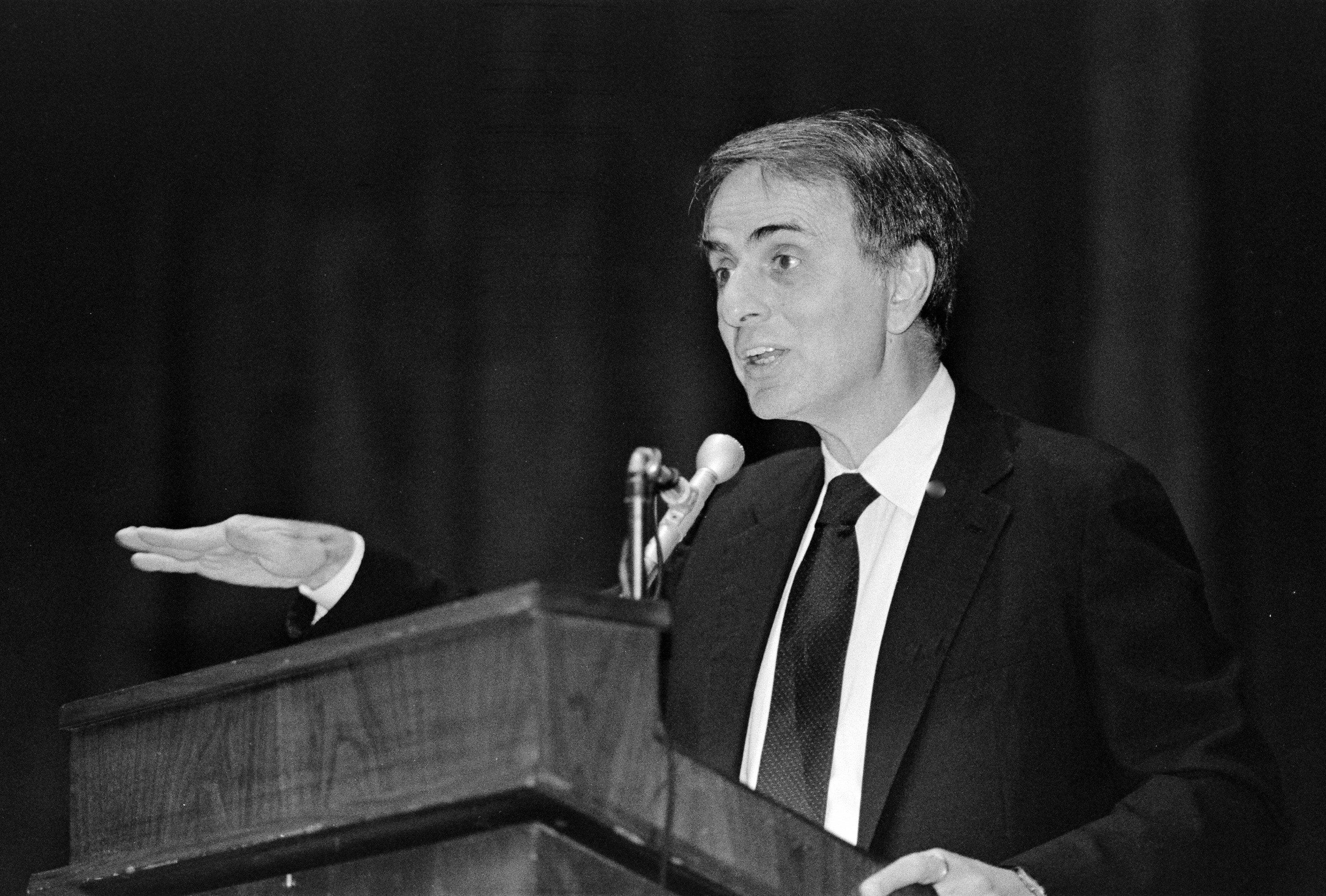 Carl Sagan speaks at Cornell University. Taken ca 1987.